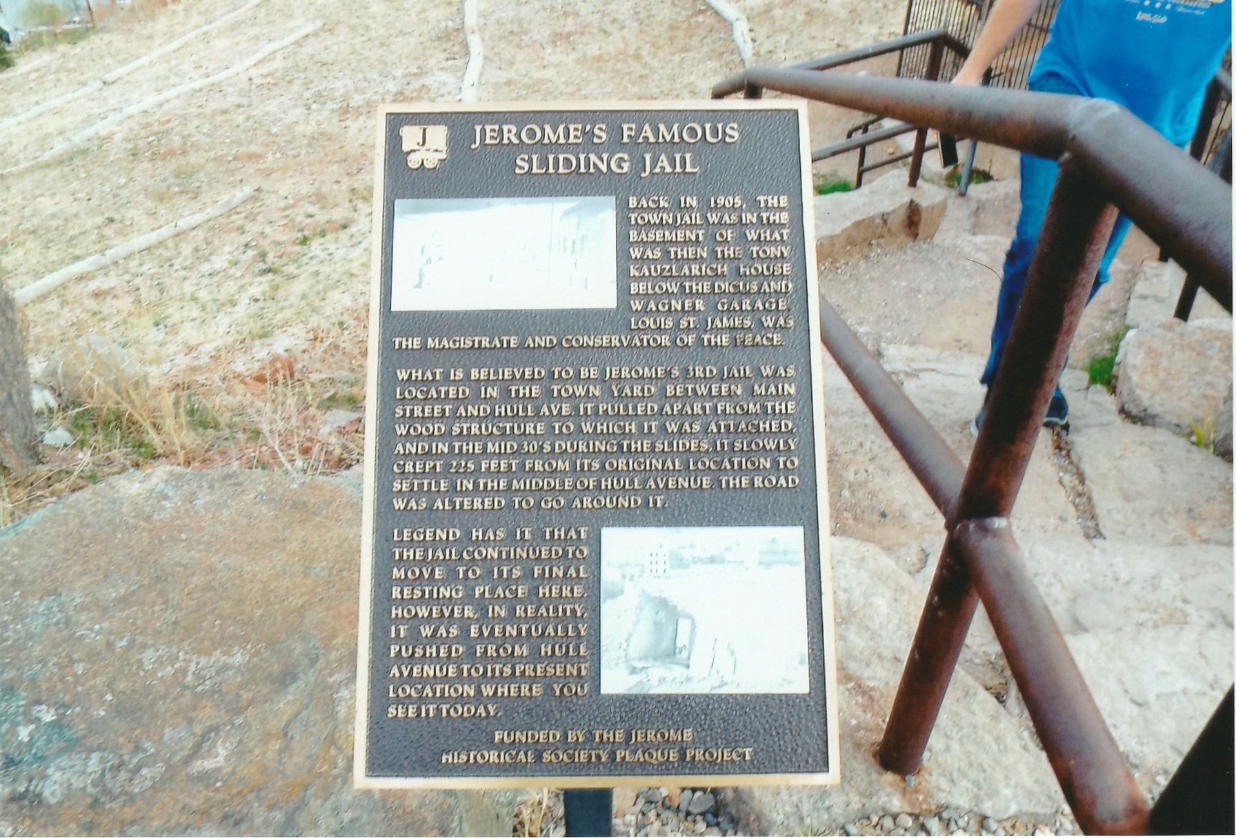 Sliding Jail Marker In Jerime, Az.